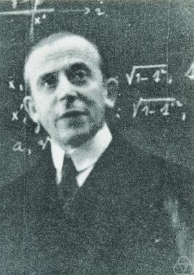 Mathematician Richard von Mises.